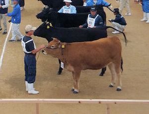 A single Japanese Brown animal at a wagyu show in Sasebo, Nagasaki